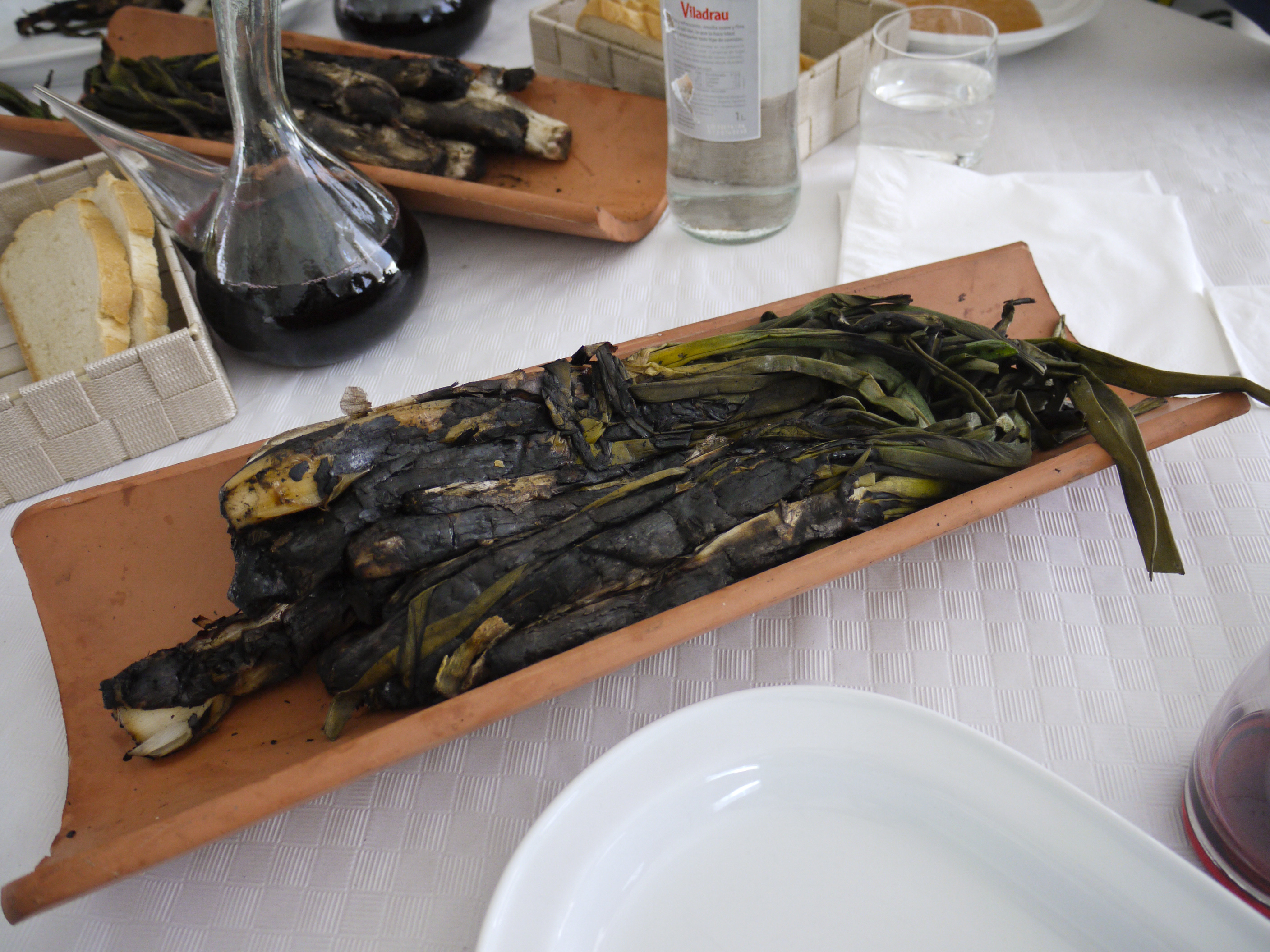 Calçots, prepared in Valls, Tarragona, Spain.